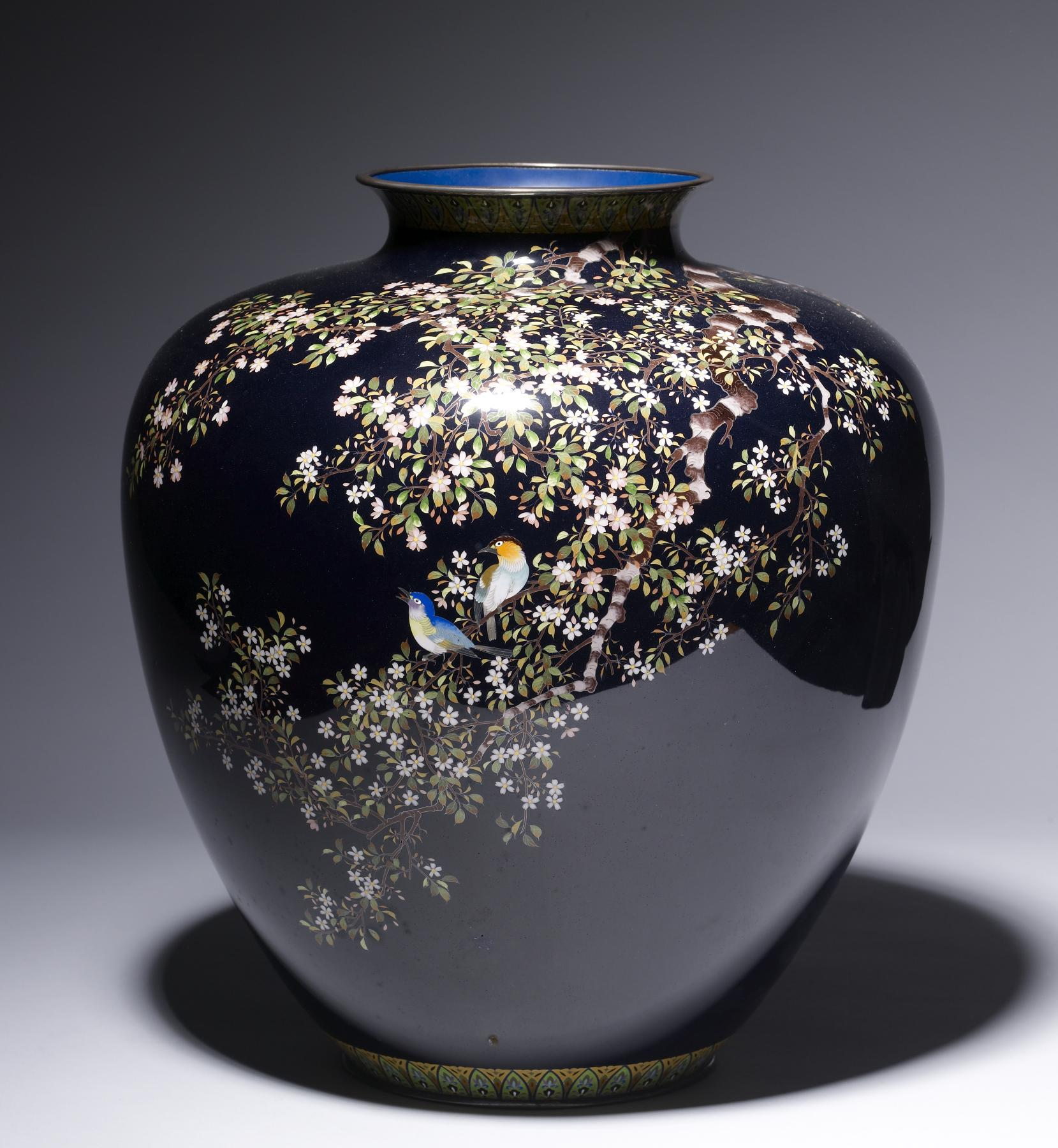 This large vase decorated with flowering cherry branches and two small birds is a magnificent example of the work of the Ando Cloisonné Company at about the turn of the 20th century. It reveals the mirror black surface that had become the standard for decorative vases of this type. The motif adorning the swelling body of the vase is a conservative one evocative of the earlier enamels that first came to the attention of European and American collectors during the last three decades of the 19th century. The border patterns at the foot and around the rim suggest the work of a studio artisan working from a pattern book. These patterns were documented and selected to compliment the more representative designs that form the primary decorative subject. Much like a frame around a painting, the harmony created between the main subject and the borders became an important indication of the relative success of the individual piece.